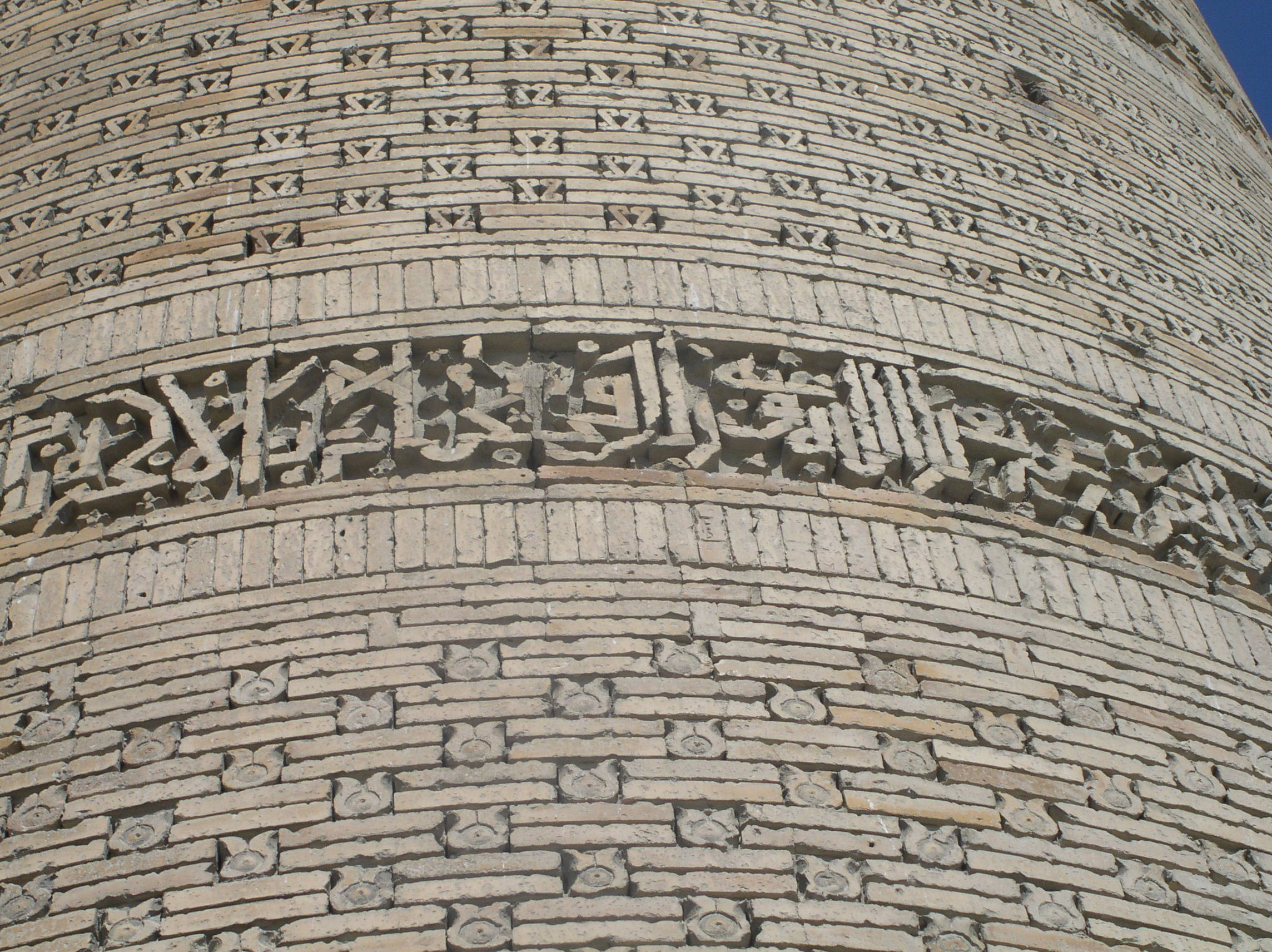 Kufic-style writings and other decorations of the minaret in Vobkent, Uzbekistan.